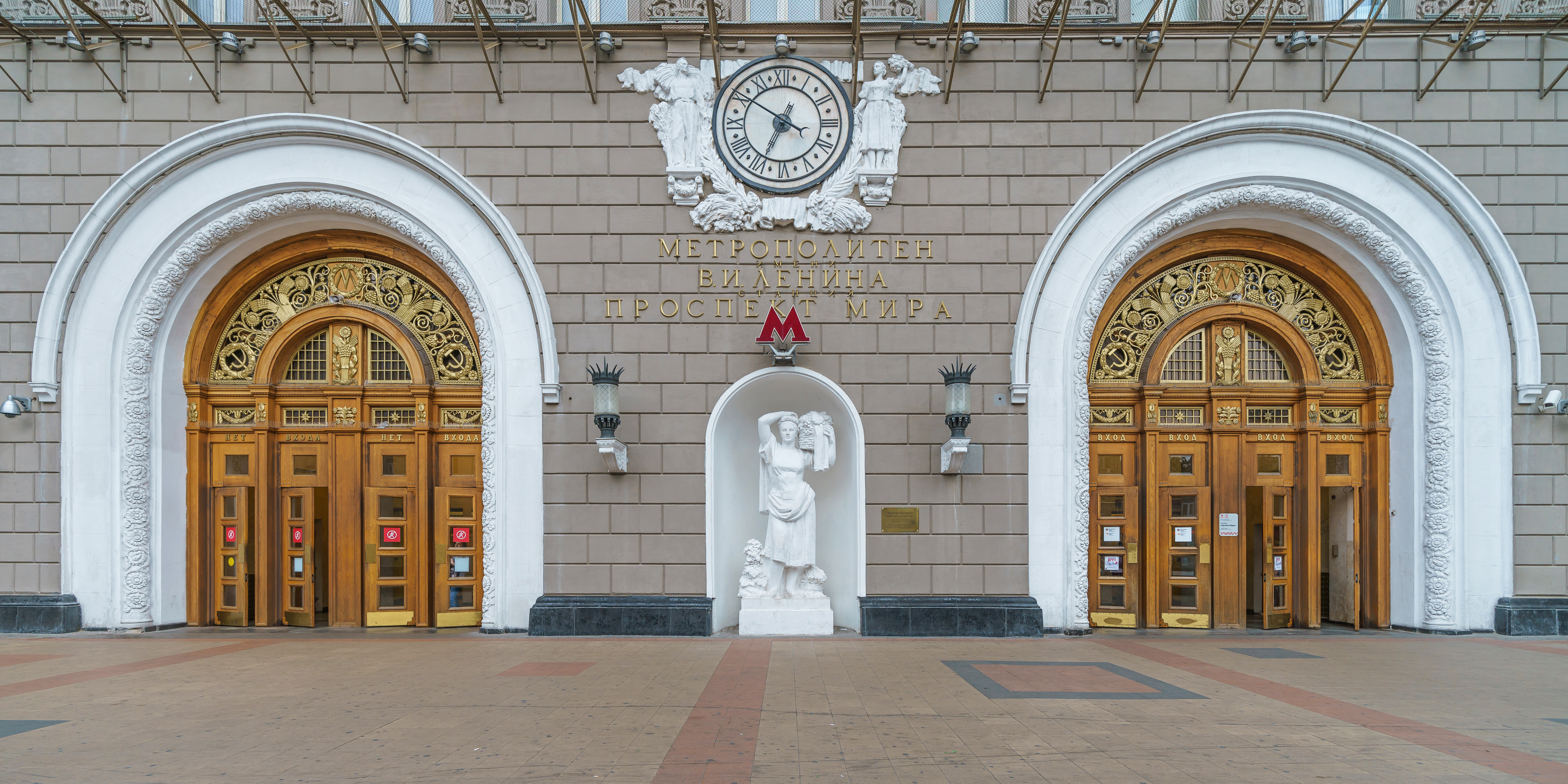 Entrance portals of Prospekt Mira (KL) metro station in Moscow, Russia.